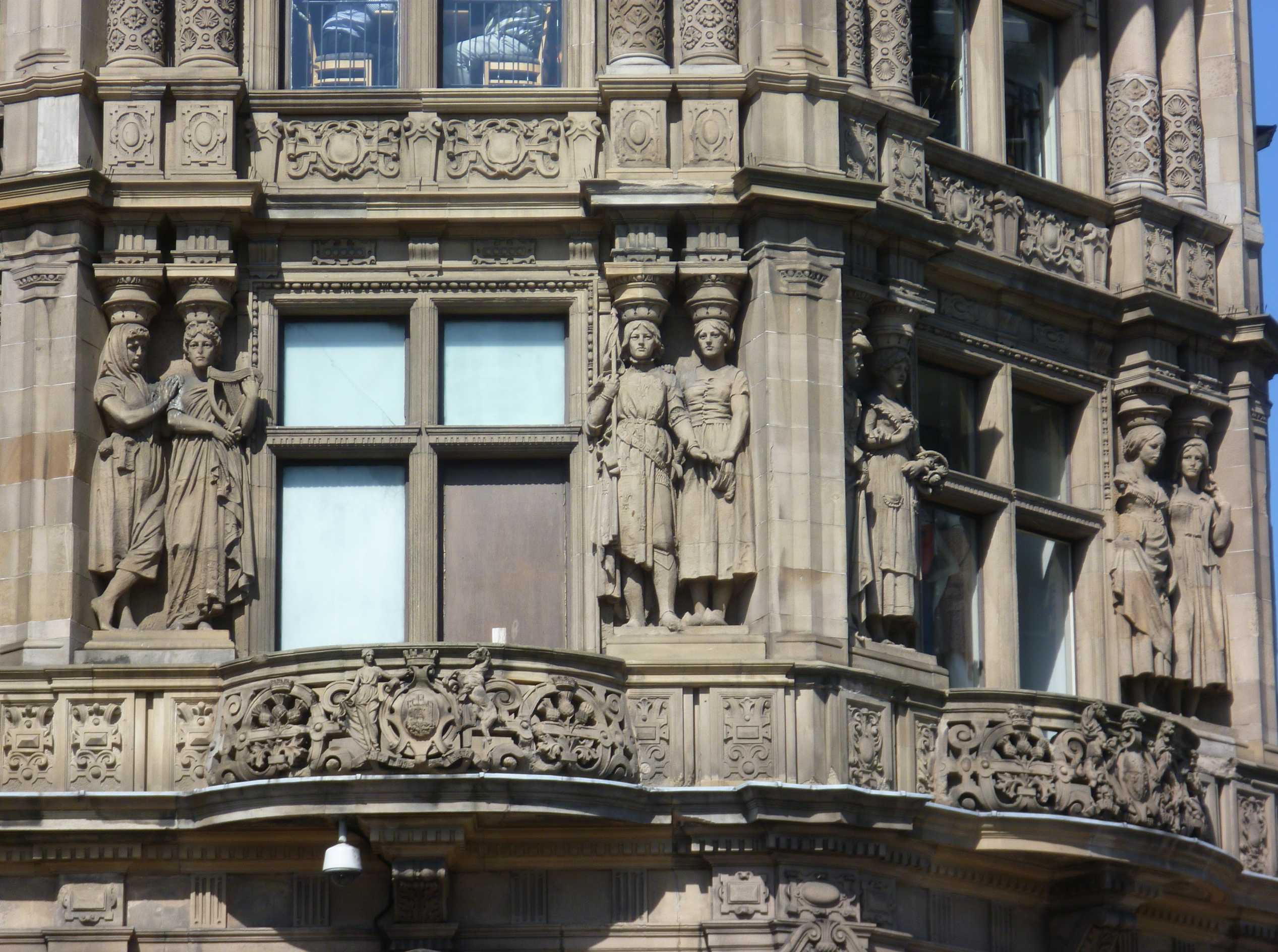 Caryatids on Jenner's Department Store, Princes Street Edinburgh